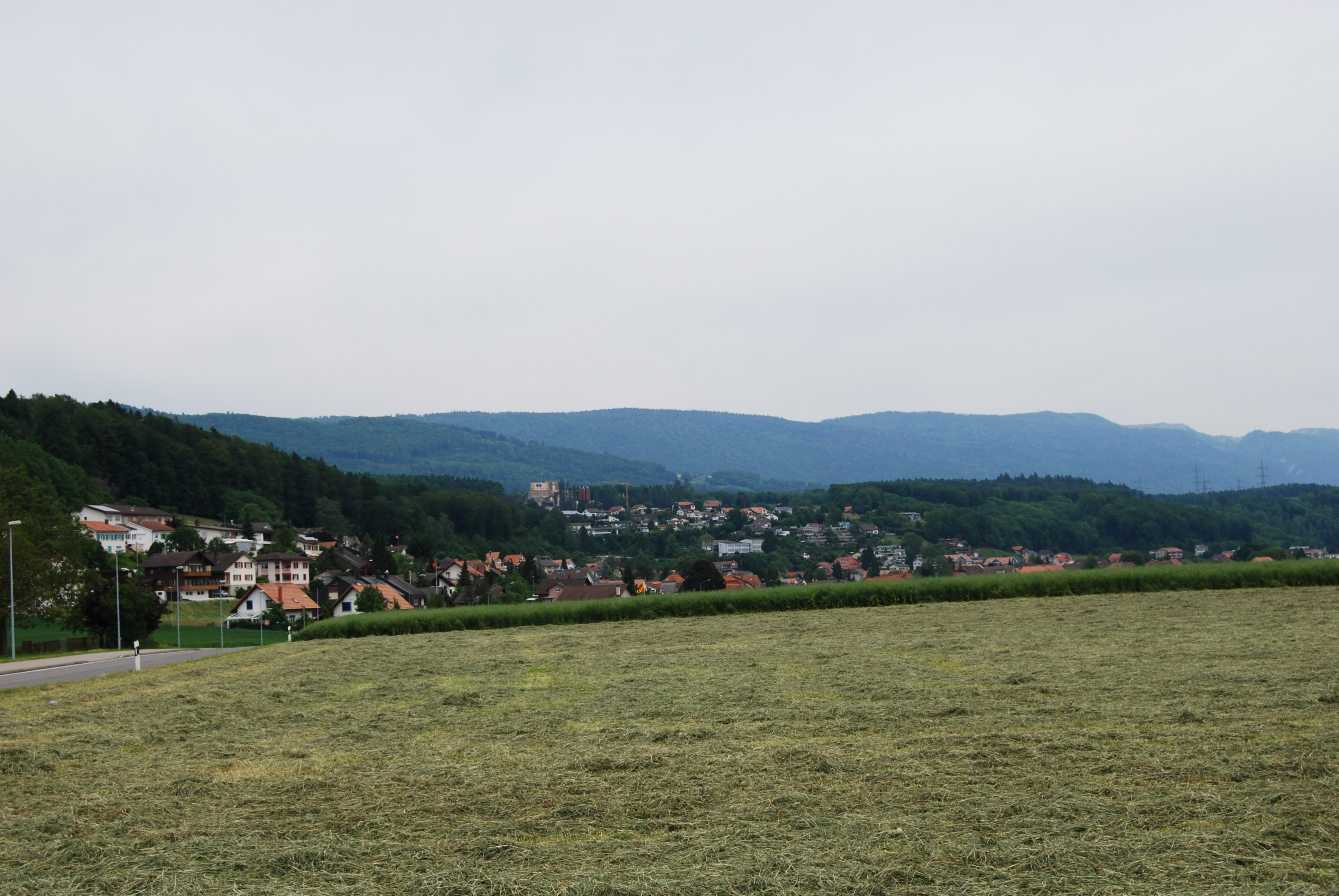 Safnern, canton of Bern, SwitzerlandEsperanto: Safnern, Kantono Berno, Svislando